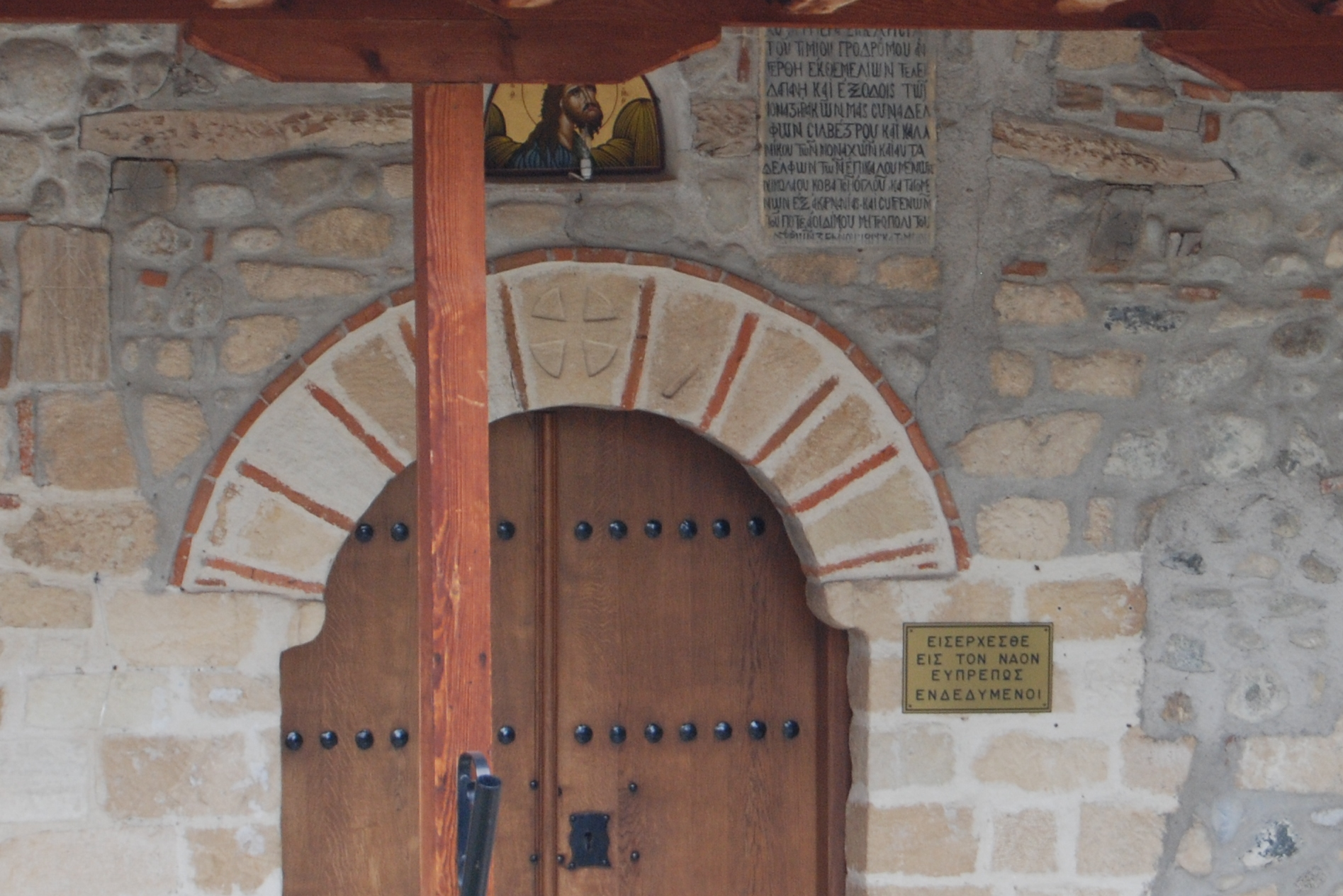 Saint John the Baptist, Serres